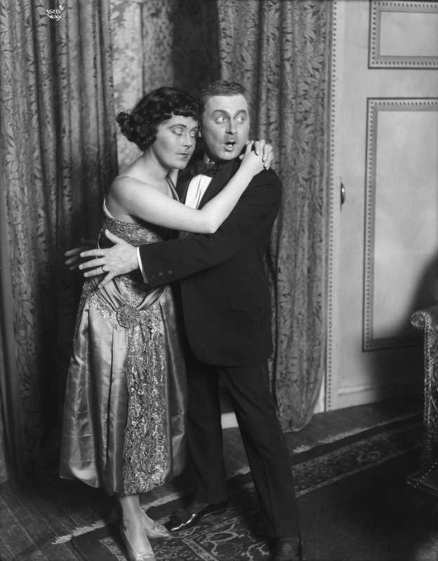 From a show at the Mayol theatre (or Intimteatret in the same house) in Kristiania (= Oslo, Norway) early 1920s. Actors unknown.